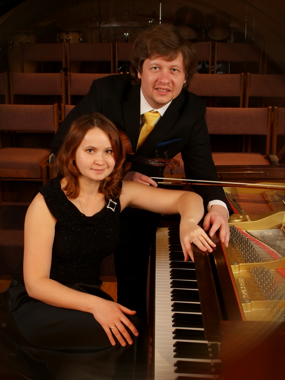 The picture of the Class&Jazz Duo